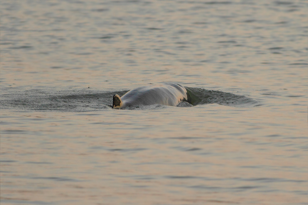 Irrawaddy Dolphin at Sundarban National Park 27102012 Other information NA